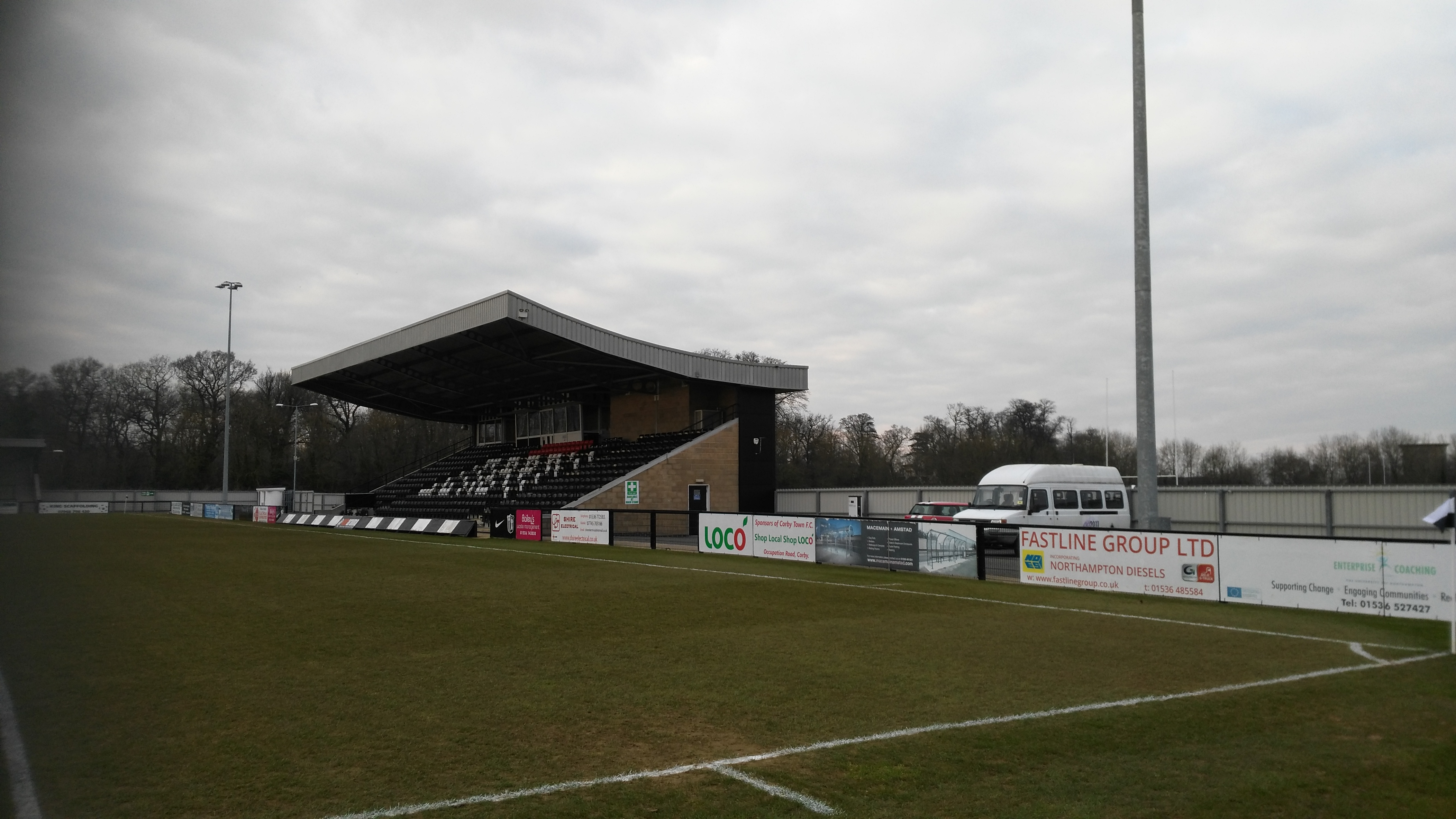 Corby town fc steel park main stand 577 seater